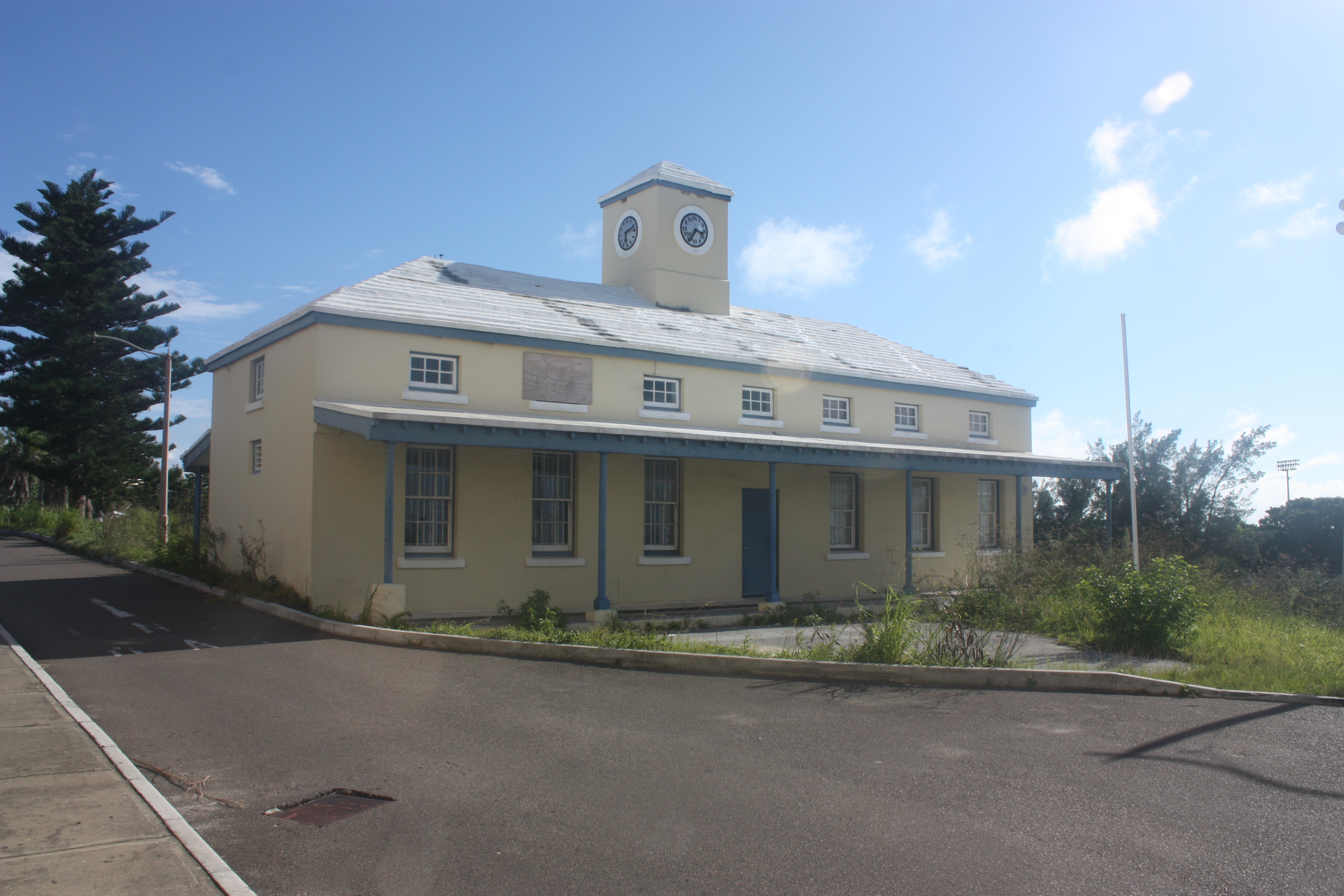 The Guard House at Prospect Camp, on White Hill, in Devonshire, Bermuda in 2011. Prospect camp housed the main detachment of regular infantry in Bermuda, and was the location of the Headquarters of the former Bermuda Garrison. After 1957, it passed to the local civil government, and has been split between the Bermuda Police Service, the Department of Education, and other uses, including the National Stadium, the original location of the Bermuda College, the current Cedarbridge secondary school. and the Ruth Seaton James audotorium. The Guardhouse has been used in past by the Bermuda Police, but is currently vacant.